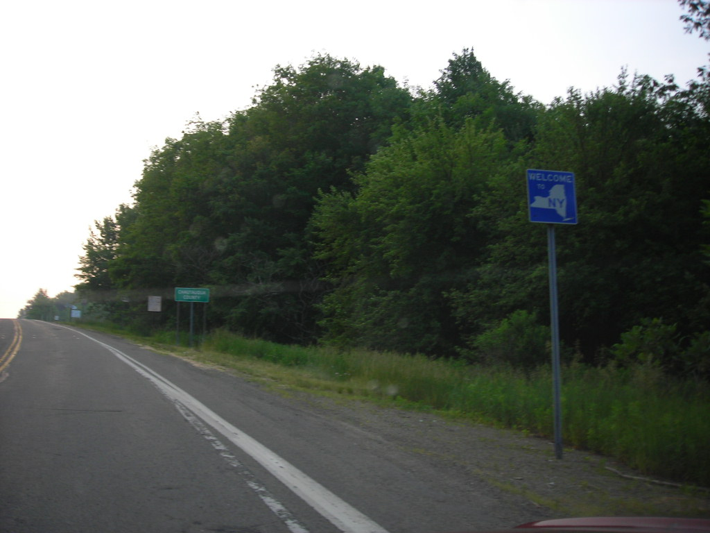 Pennsylvania Route 430 at its terminus at NY 430. The gantry for NY is missing.